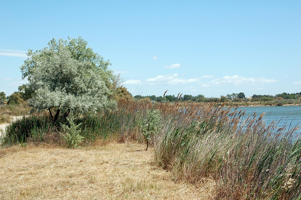 Aigues-Mortes, Camargue, France